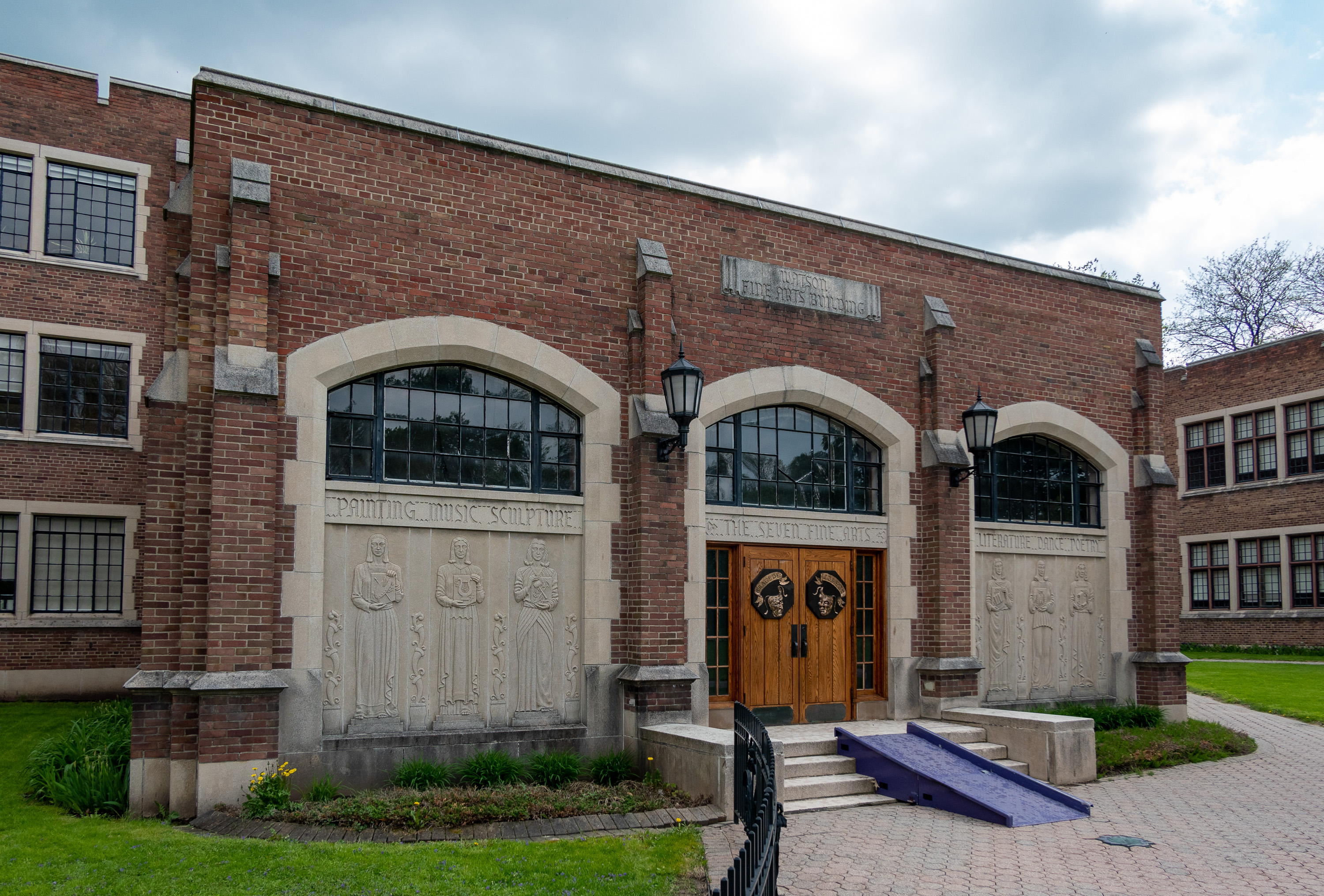 Watson Fine Arts Building, Elmira College, Elmira New York